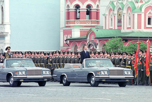 RED SQUARE. MOSCOW. Military parade dedicated to the 56th anniversary of Victory in the Second World War.